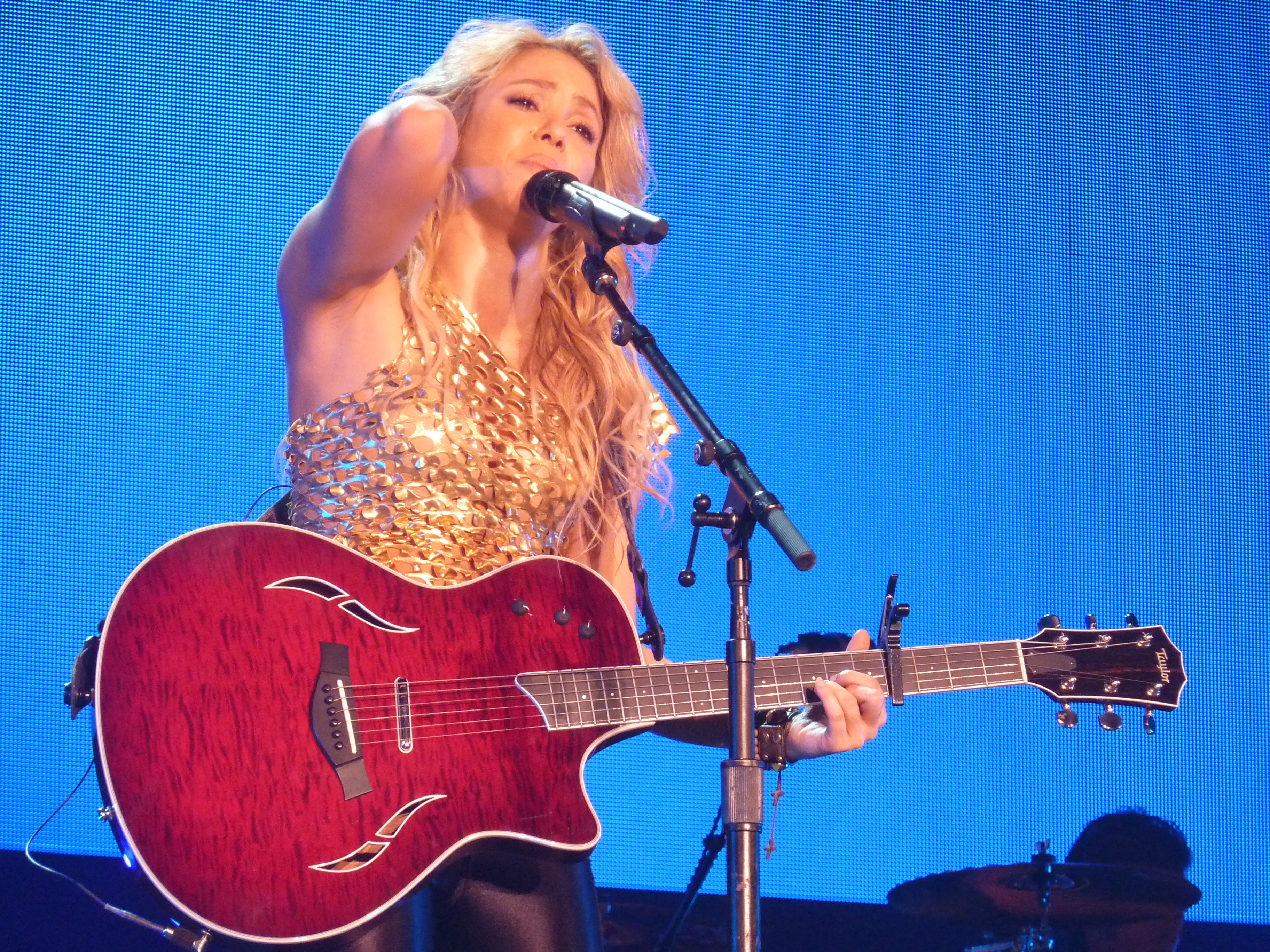 Shakira in concert in Palais Omnisports de Paris-Bercy, Paris in 2010. Taylor T5 Pro figured maple top, Hollowbody electric/acoustic hybrid guitar